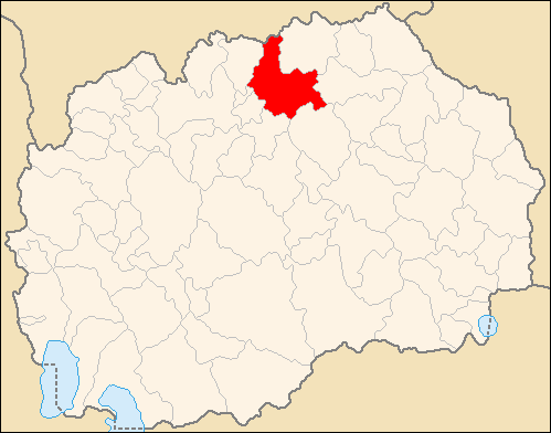 Municipality Kumanovo in Republic of Macedonia, Locator maps